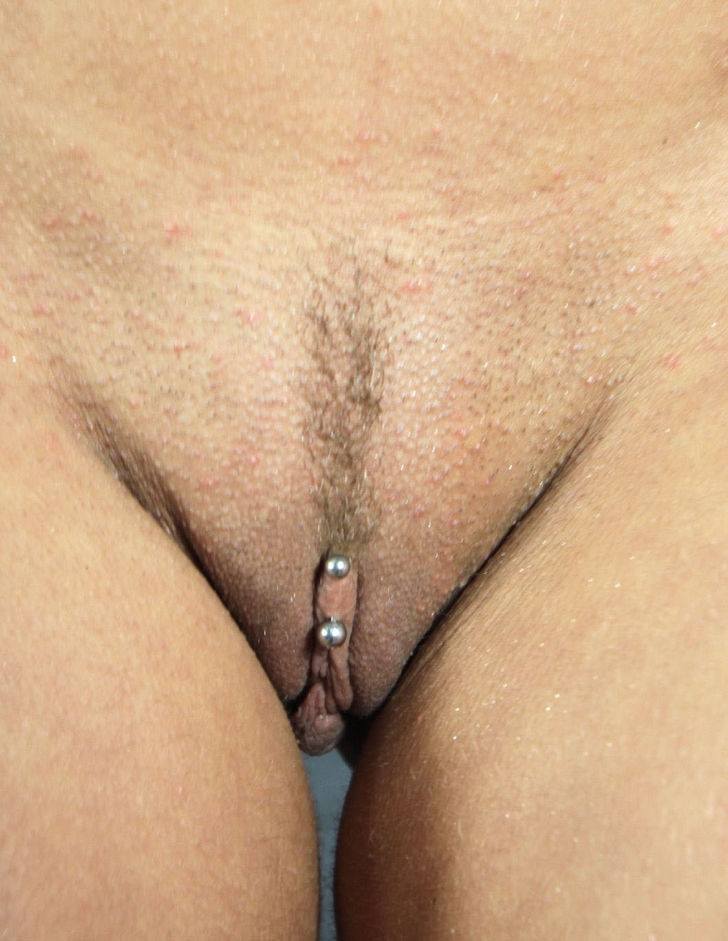 "Landing Strip": pubic hair cut